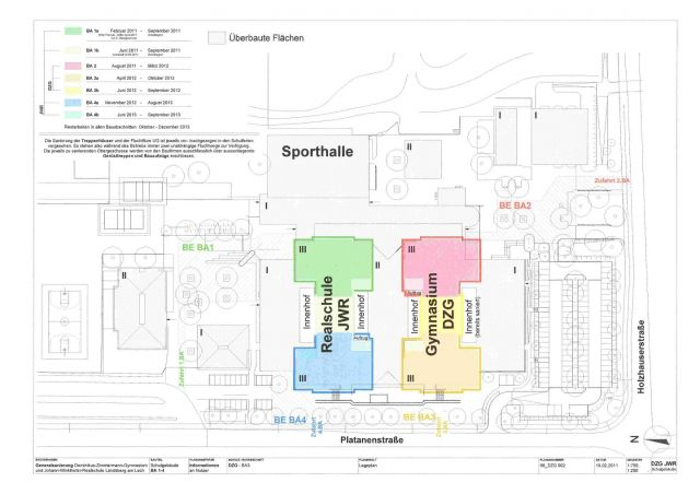 You can see the four terms of the refurbishment at the DZG and JWR.